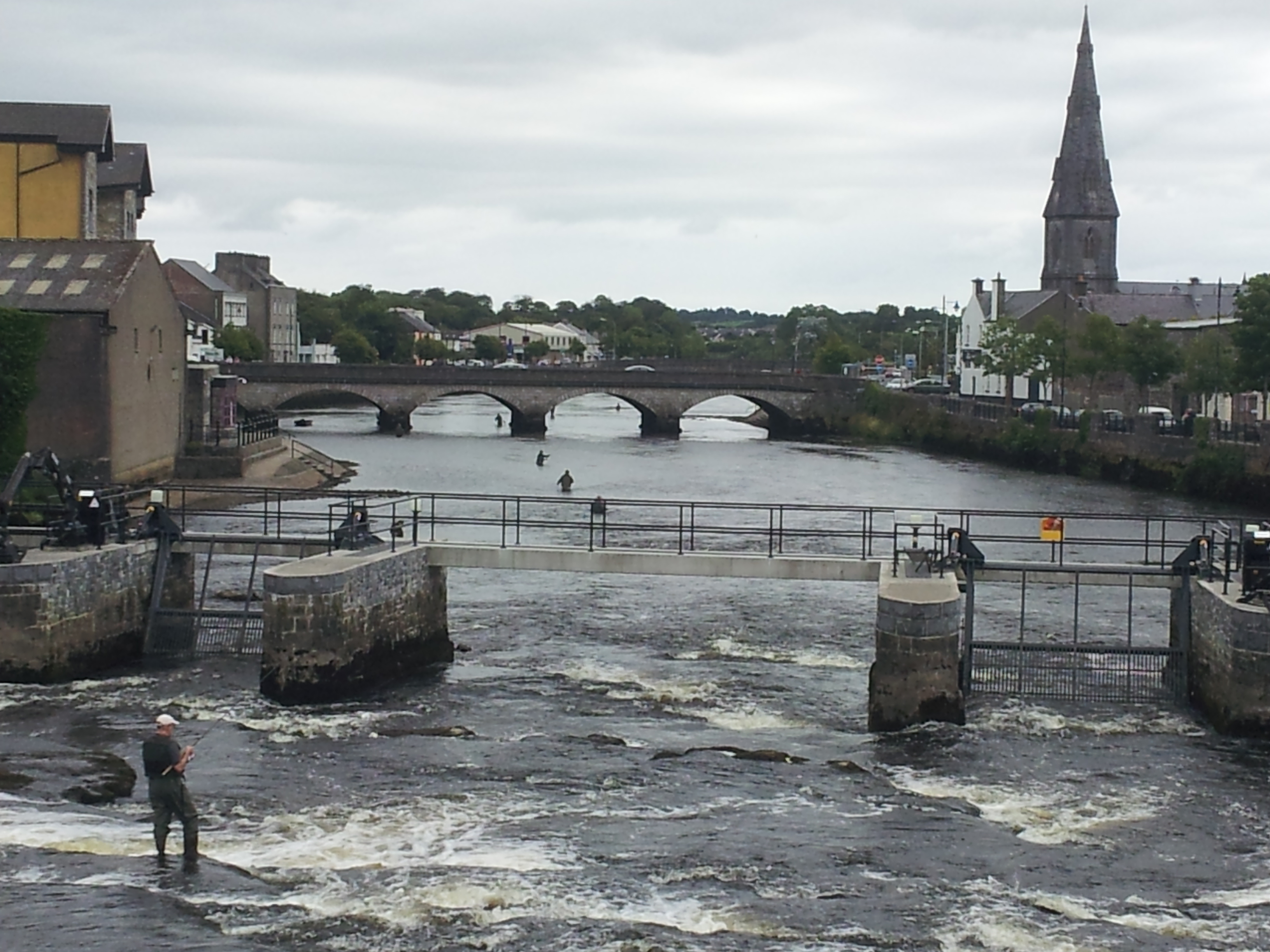 Fly fishing, River Moy, Ballina, Mayo, Ireland